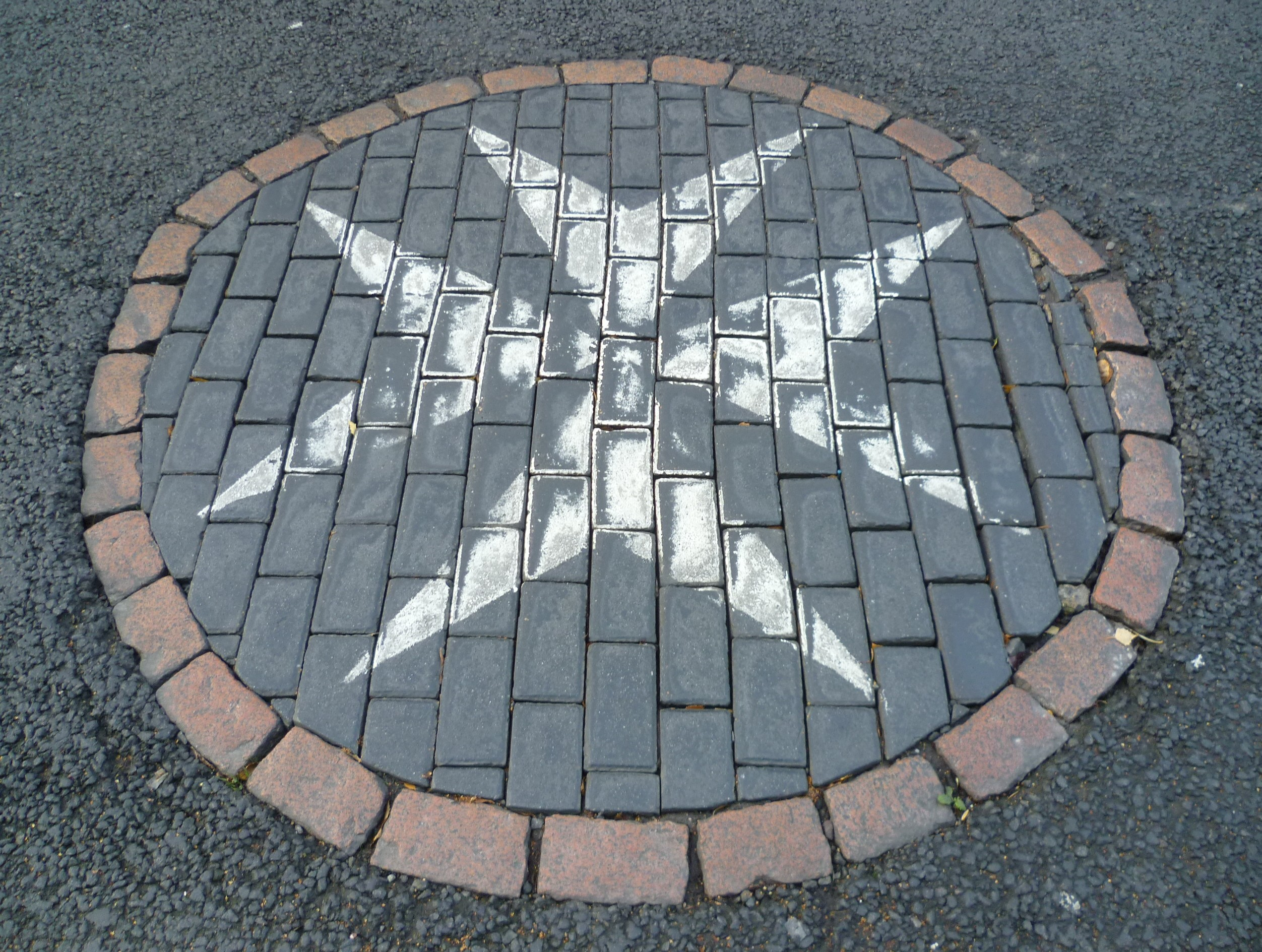 This pattern of setts in the roadway is the site of the stone cross which marked the old official boundary between the burghs of Canongate and Edinburgh before their merger in 1856. It lay outside Edinburgh's town gate called the Netherbow Port and was the place where the town council would assemble to meet royal visitors approaching the city from the direction of Holyrood. Lord Provosts were knighted on this spot.